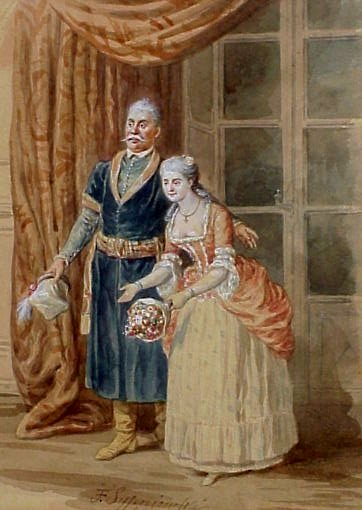 Watercolor painting by Feliks Sypniewski "Sypniewskis at Palace in Homel", a.k.a. "Ancestors" (also mistakenly called "Nobleman and Wife" or "Nobleman and Daughter") showing painter's grandparents: Jan Odrowąż-Sypniewski and Stefania Jaraczewski from Jaraczewo, inside their palace in Homel (currently Belarus). Stolen by Germans during World War I, it was considered lost until it re-surfaced at one of the German auction houses in 1972.